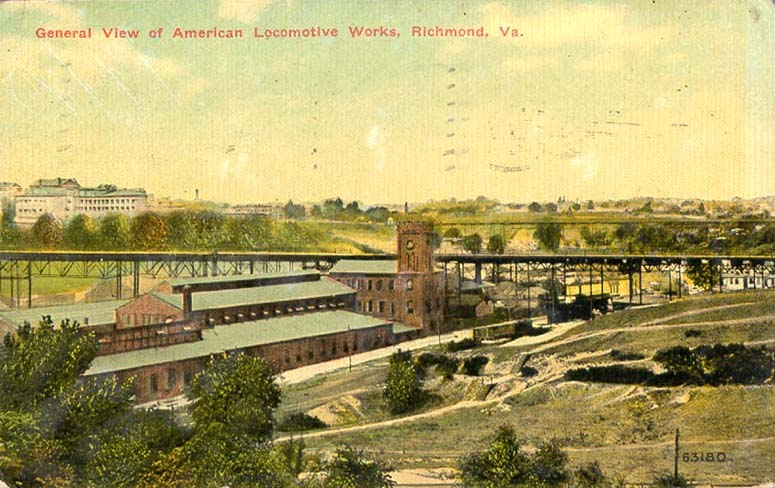 General View of American Locomotive Works, Richmond, Virginia